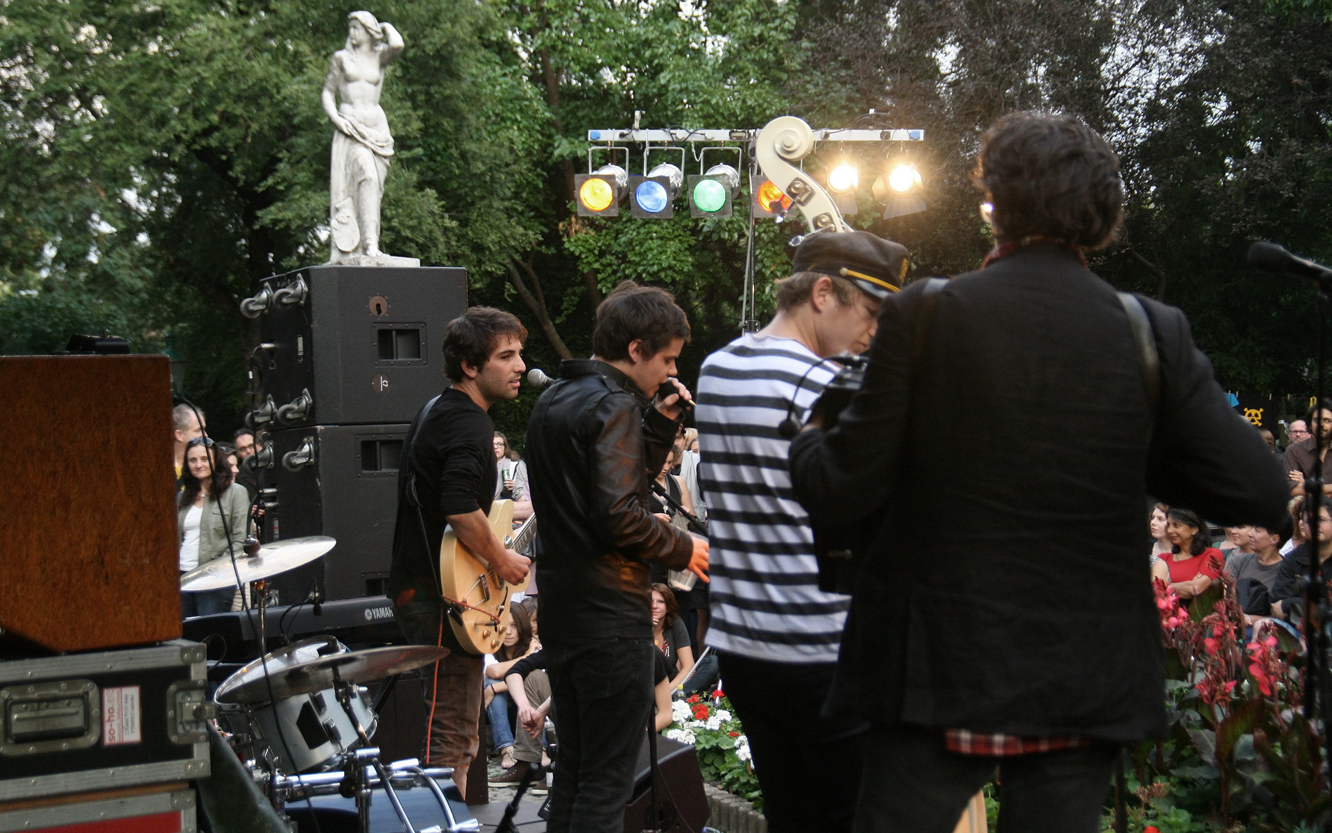 Der Nino aus Wien - concert at the Stadtpark in Vienna.